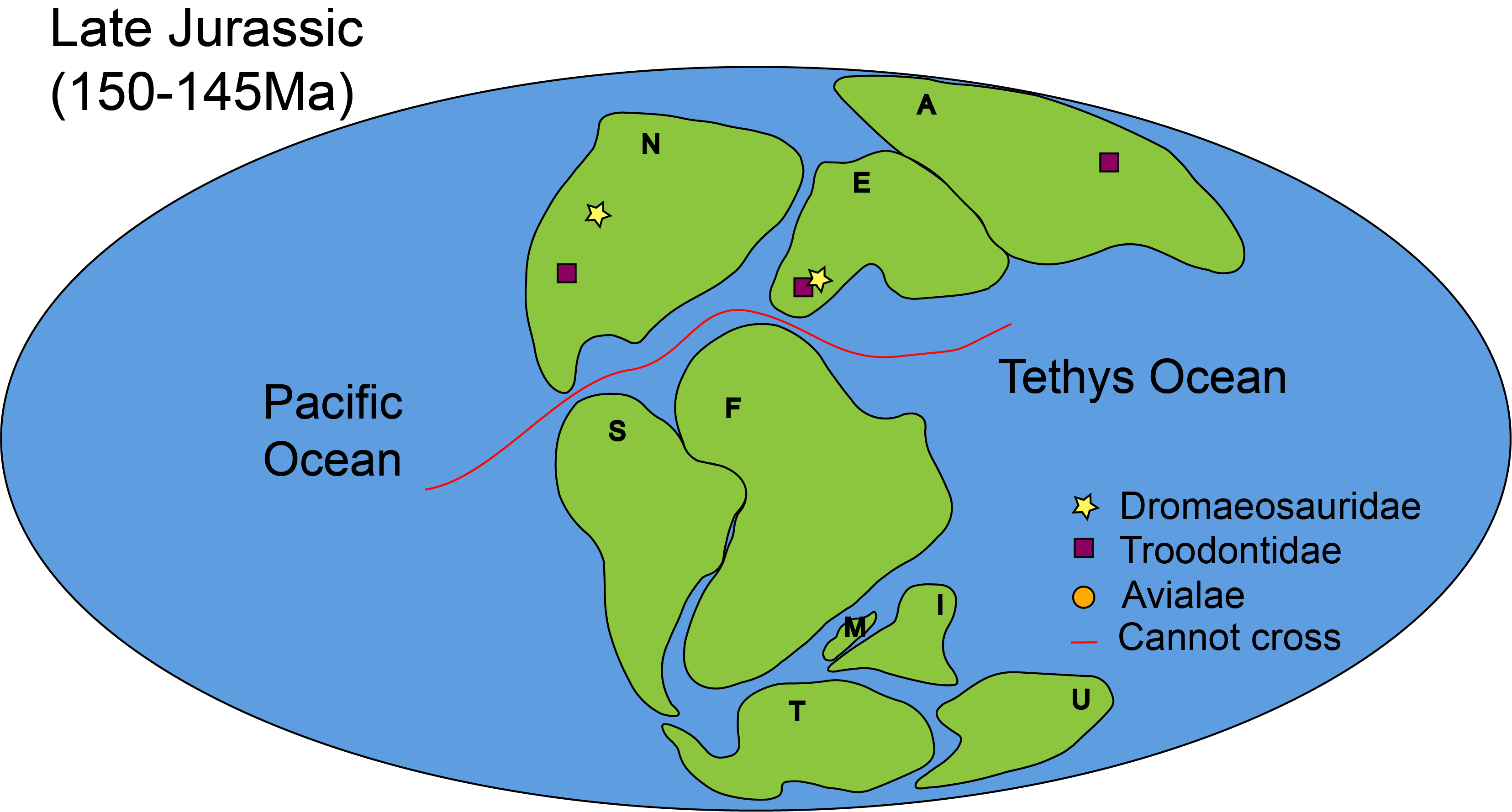 A map showing the distribution of paraves in Late Jurassic with the respective paleogeographic setting.